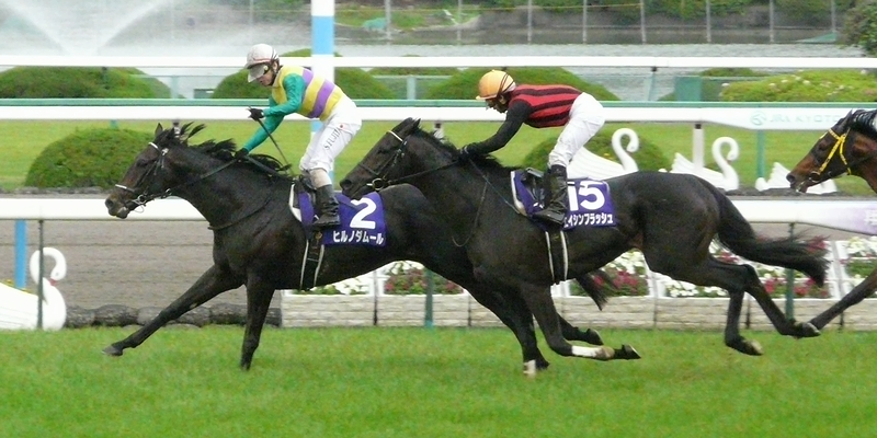 Hiruno-Damour20110501(1)